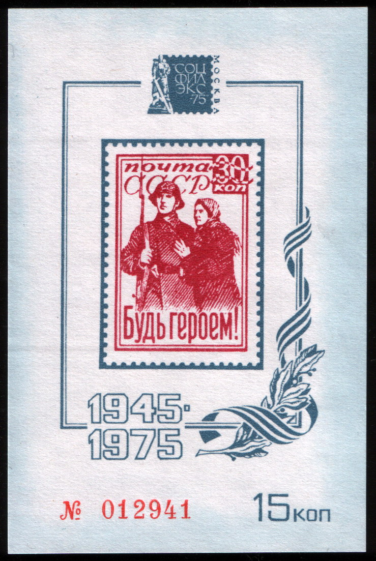 Non-postage souvenir sheet of the Soviet Union, The international philatelic exhibition "Socfilex-75", 1975